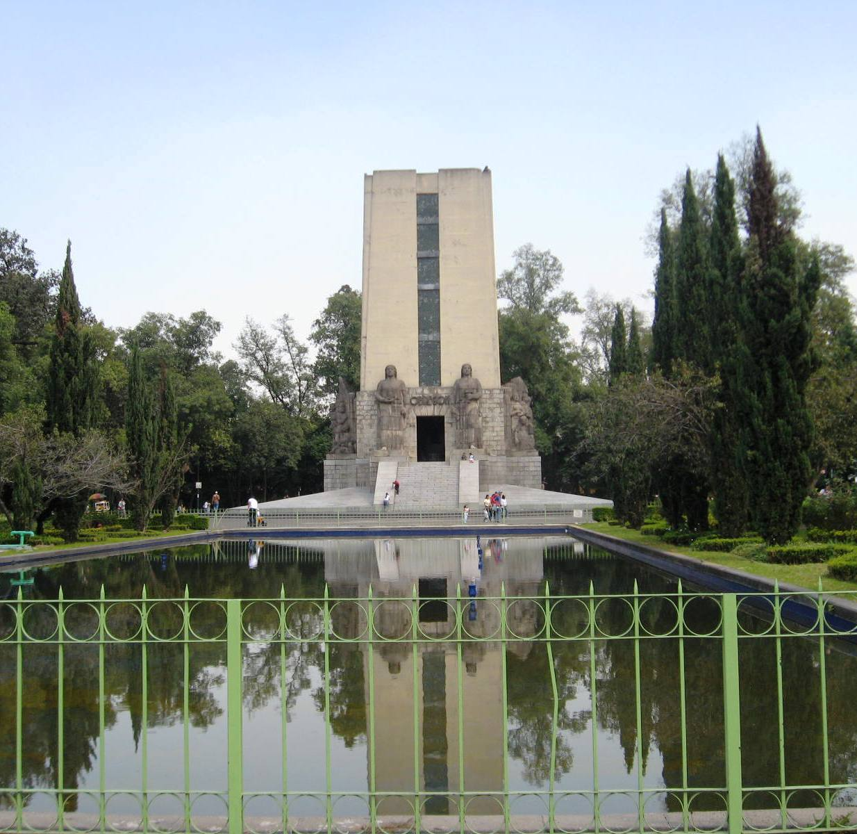 Monument to Alvaro Obregon located in the San Angel colonia of Delegacion Alvaro Obregon in Mexico City